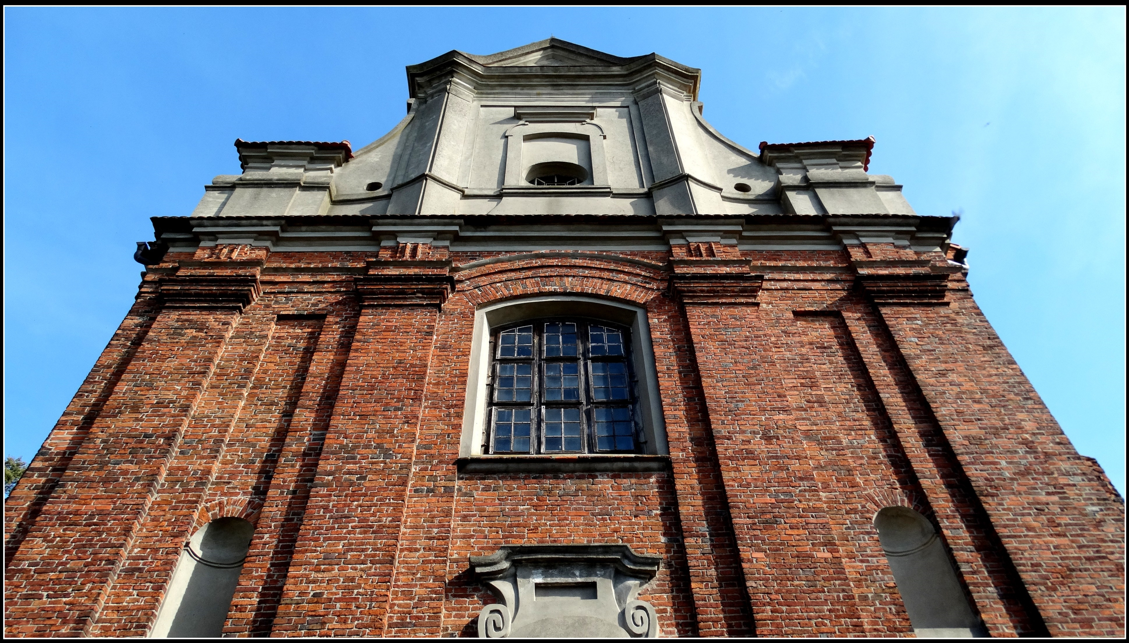 Stary Białcz, church couples. P.W. All Saints l. 1696 - 1717, frag. west elevation / gm. Śmigiel / pow. kościański / province. Greater